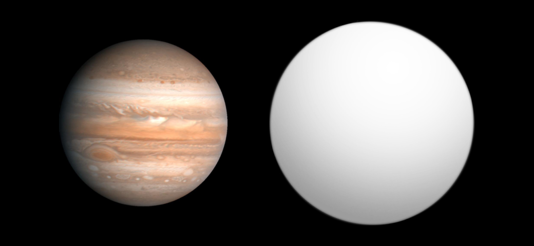 Comparison of best-fit size of the exoplanet XO-3 b with the Solar System planet Jupiter, as reported in the Open Exoplanet Catalogue[1] as of 2010-09-30. ↑ Open Exoplanet Catalogue (2010-09-30). Retrieved on 2010-09-30.